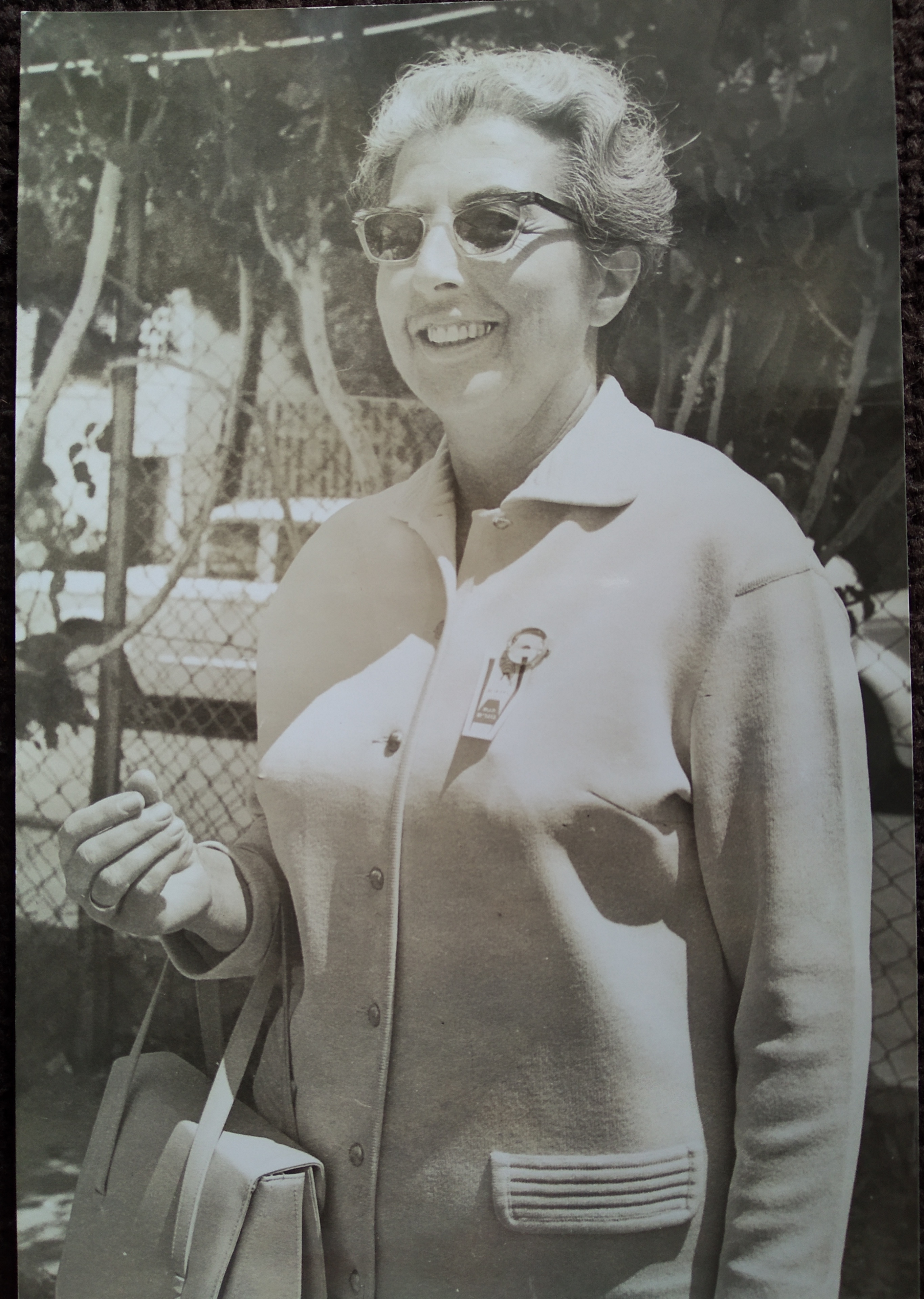 Ellen Katz (1912-1995), Board member and school counselor